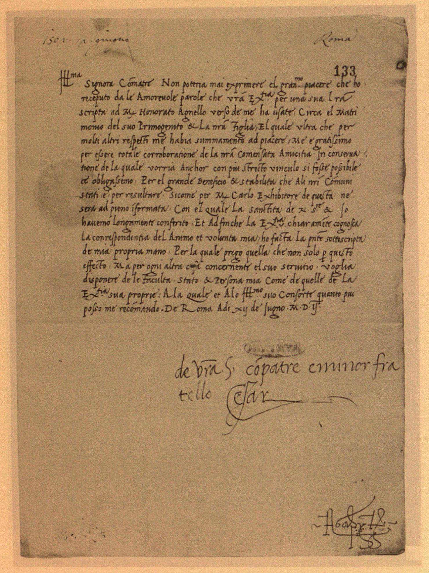 An autograph letter of Cesare Borgia to Isabella d’Este. Mantua, Archivio di Stato, Autografi, busta 5, c. 133.